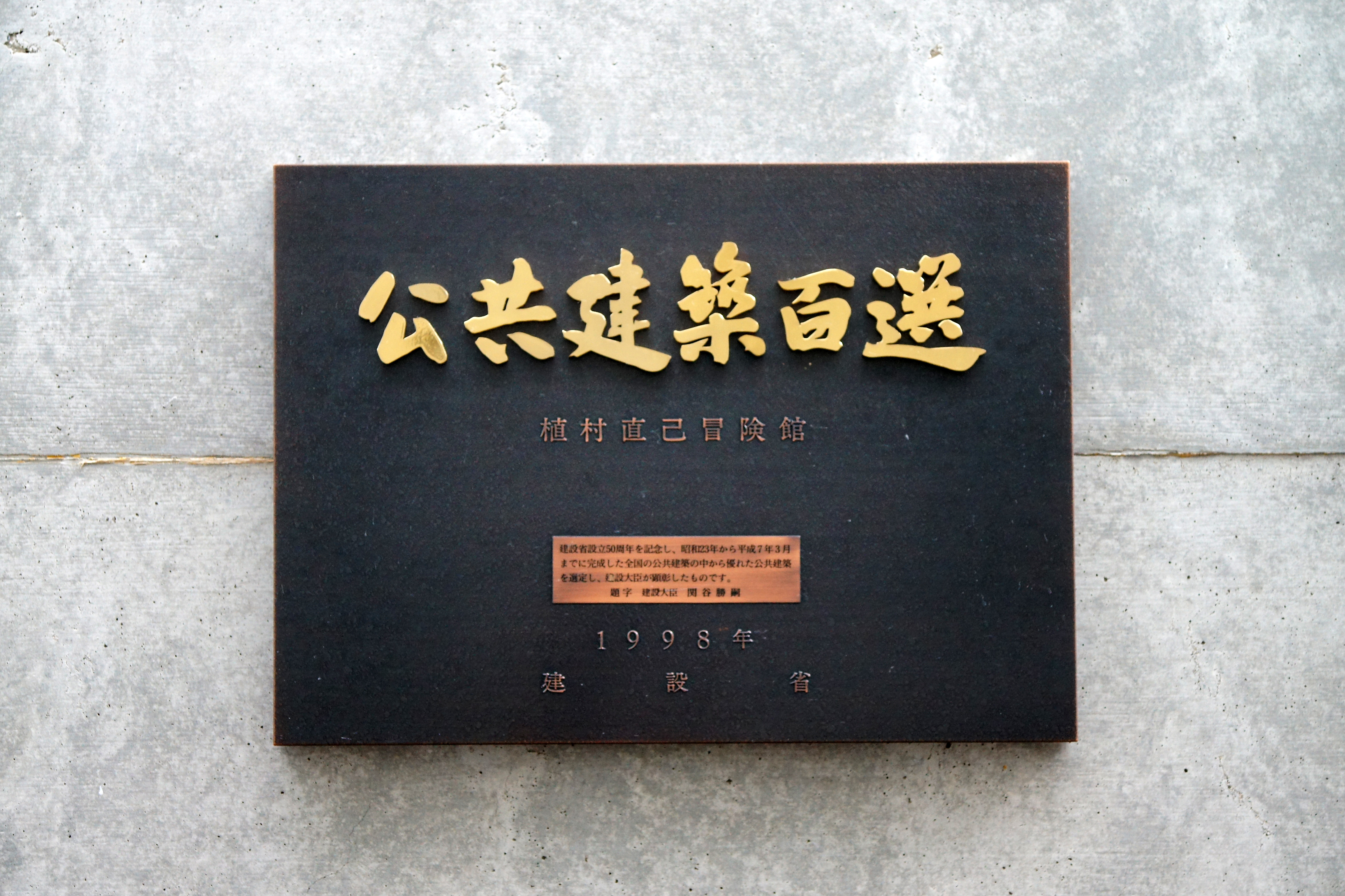 Uemura Naomi Memorial Museum in Kannabe highlands, Toyooka, Hyogo prefecture, Japan.